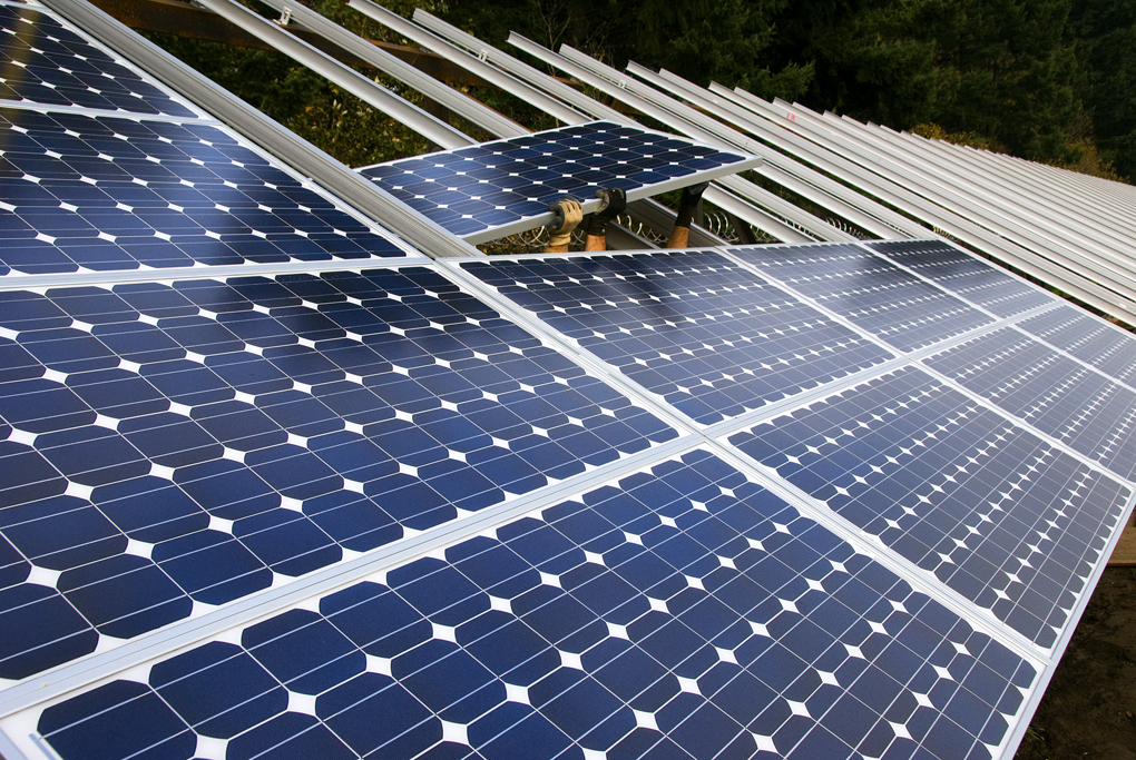 Oregon Solar Highway Demonstration Project. A solar panel is lifted into place.